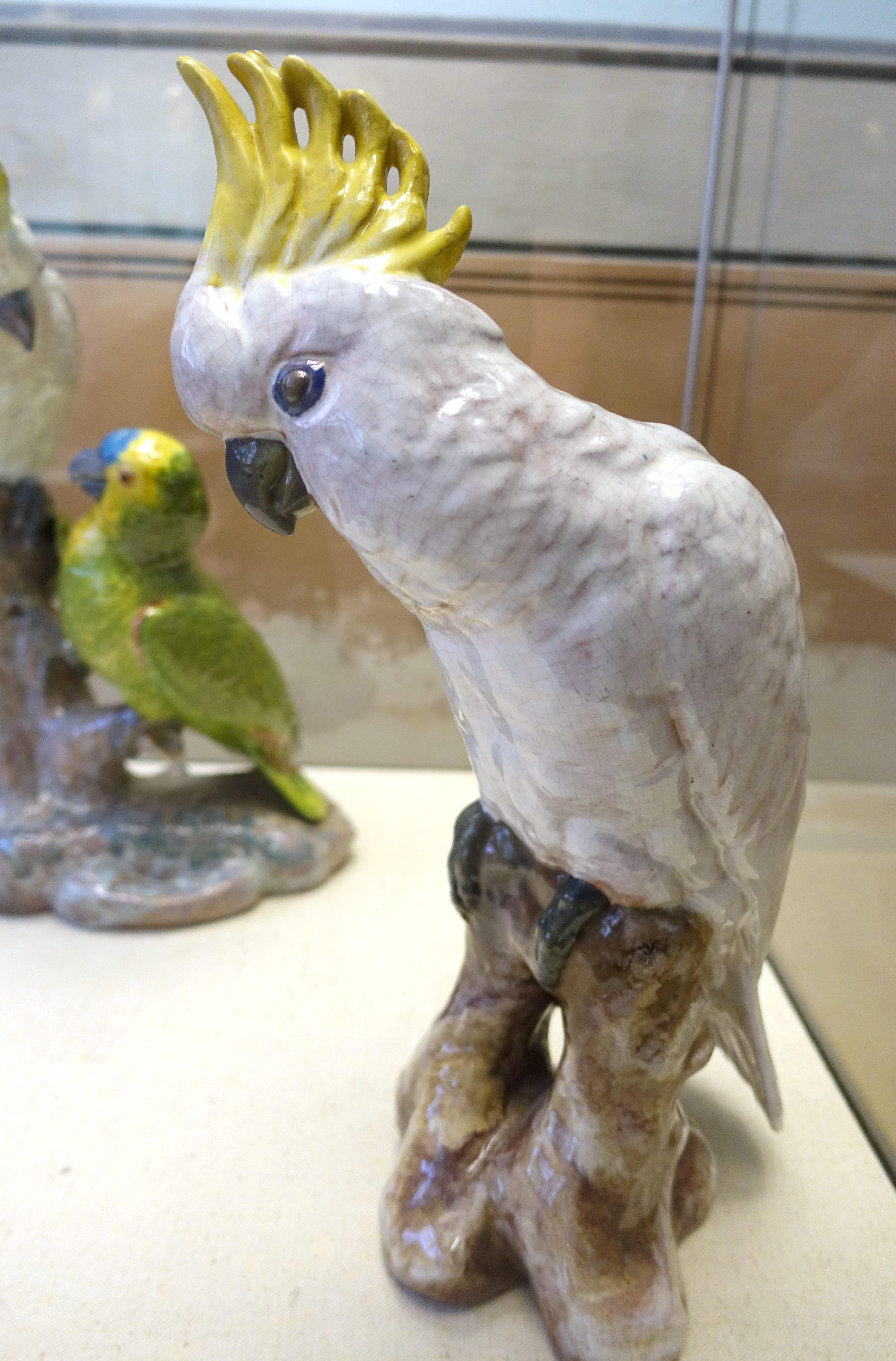 Exhibit in the Keramik-Museum Berlin, Schustehrusstrasse 13, 10585 Berlin, Germany. This work is in the public domain because the artist died more than 70 years ago.